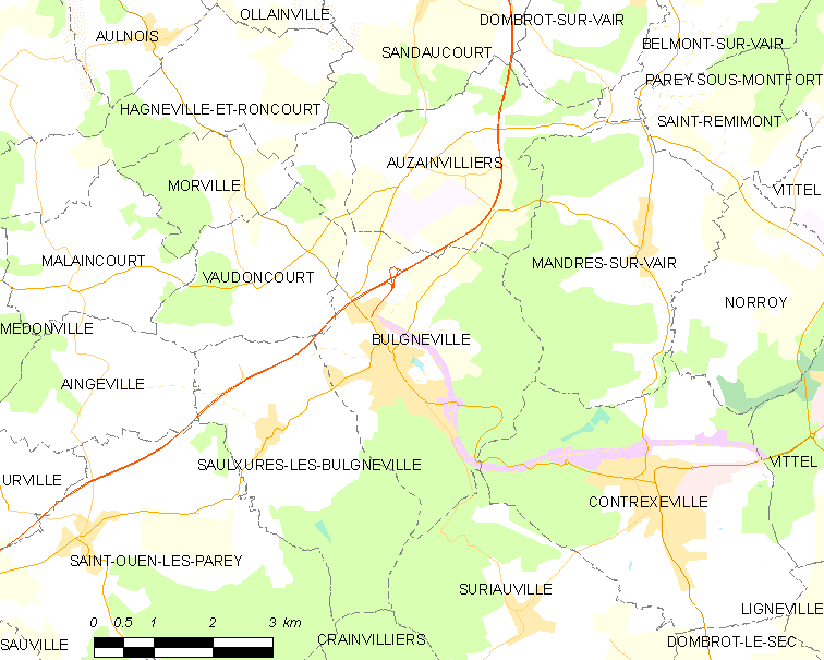 Map of French municipality Bulgnéville